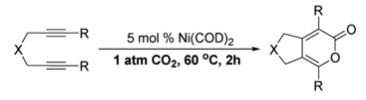 helloi